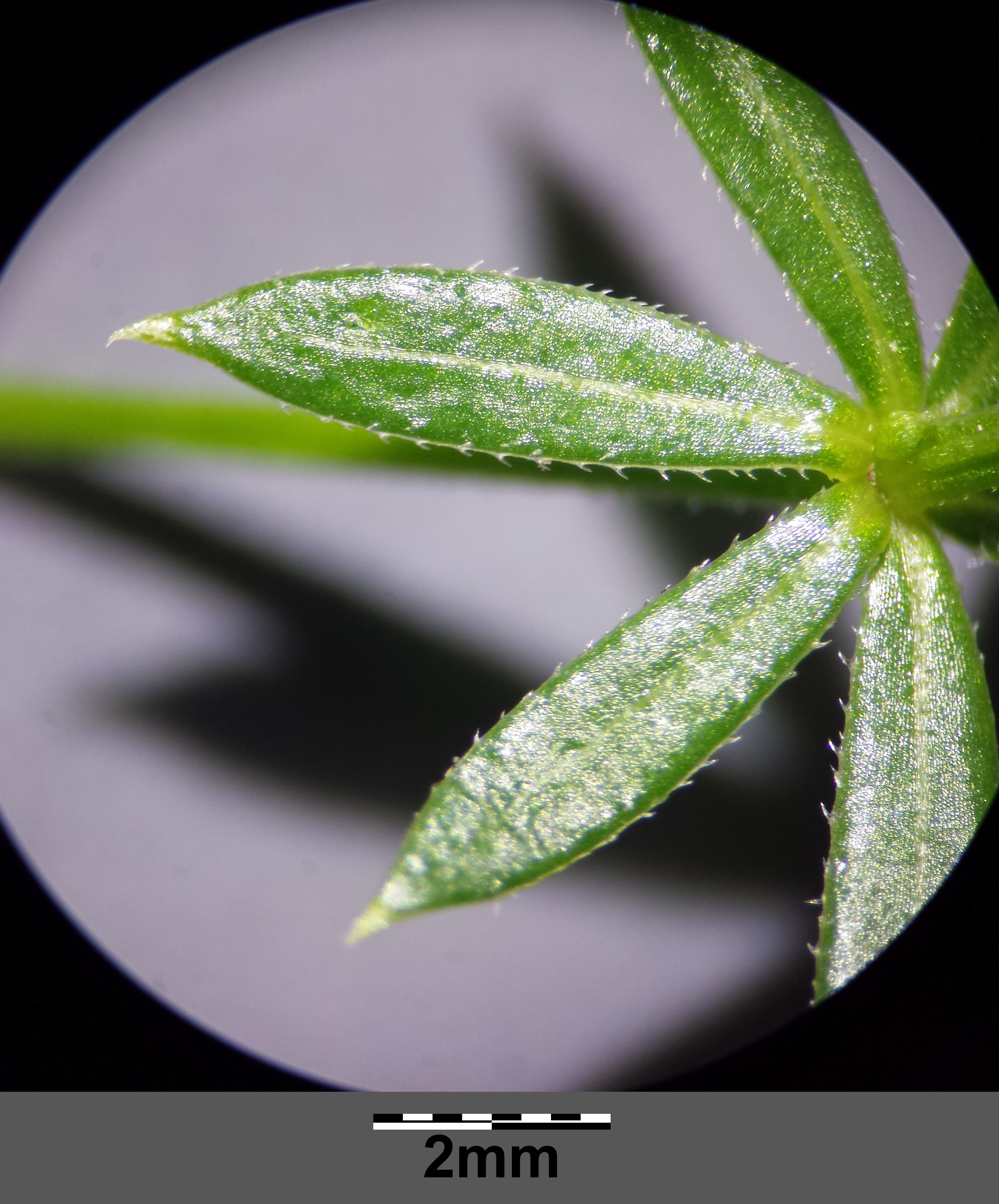 Stipe with leaves Taxonym: Galium uliginosum ss Fischer et al. EfÖLS 2008 ISBN 978-3-85474-187-9 Location: near Komau, district Freistadt, Upper Austria - ca. 850 m a.s.l. Habitat: brookside